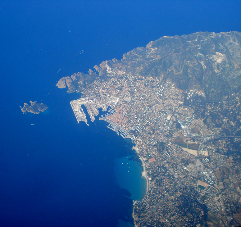 La Ciotat (France)